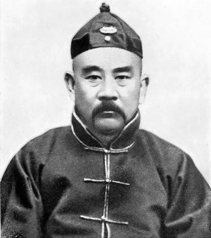 Zhang Xun, Premier of Qing Empire July 1917